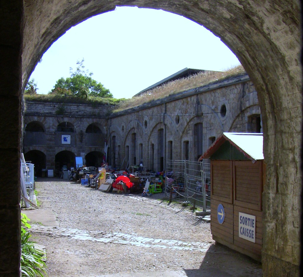 Inside of the fort of Planoise (Emmaus charity), in Besançon (Doubs, France).